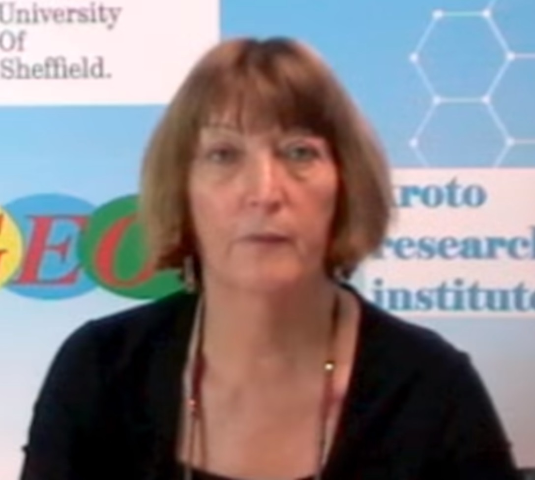 Video Highlight from Sheila MacNeil on her recently published B&B paper entitled "Arginine functionalization of hydrogels for heparin binding—a supramolecular approach to developing a pro-angiogenic biomaterial." Read the paper on Wiley Online Library